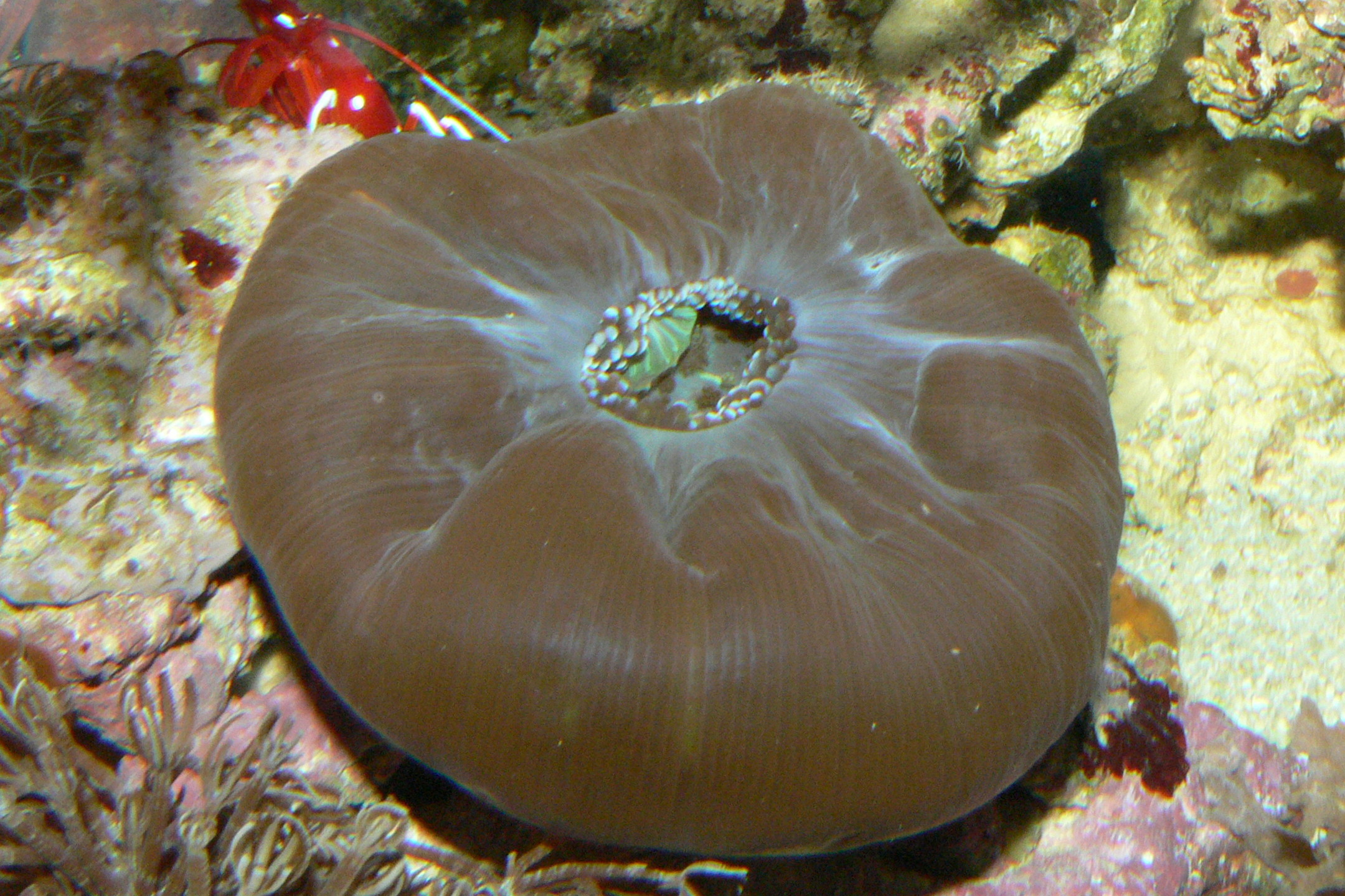 Rhodactis ct. inchoata